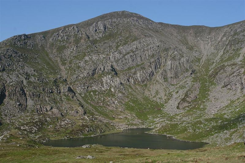 Ffynnon Lloer, Carneddau